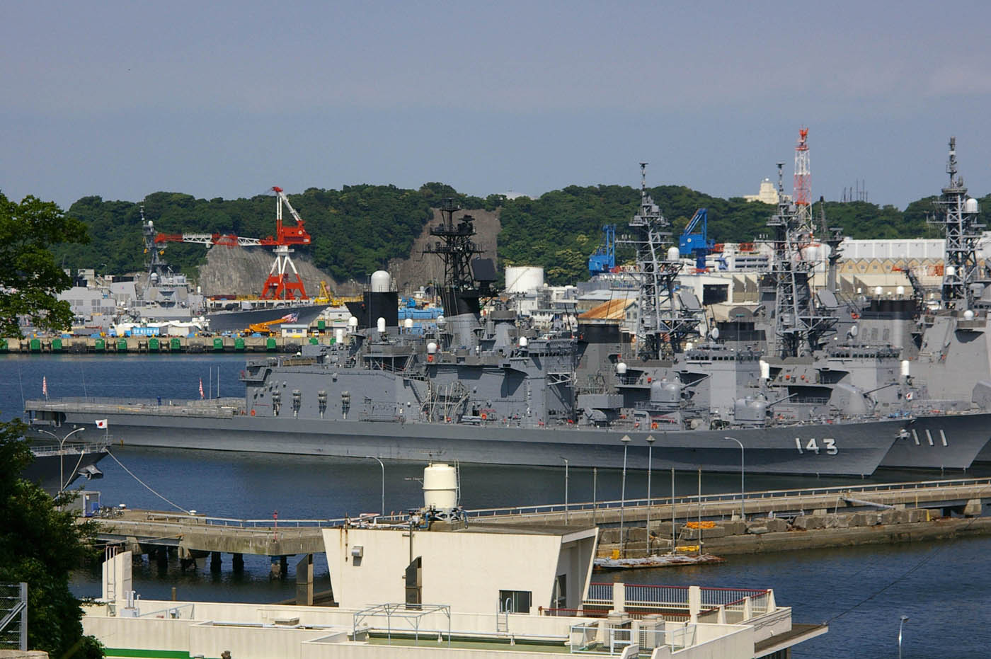 JMSDF_DD_143_Shirane (Taken at Yokosuka,Japan)